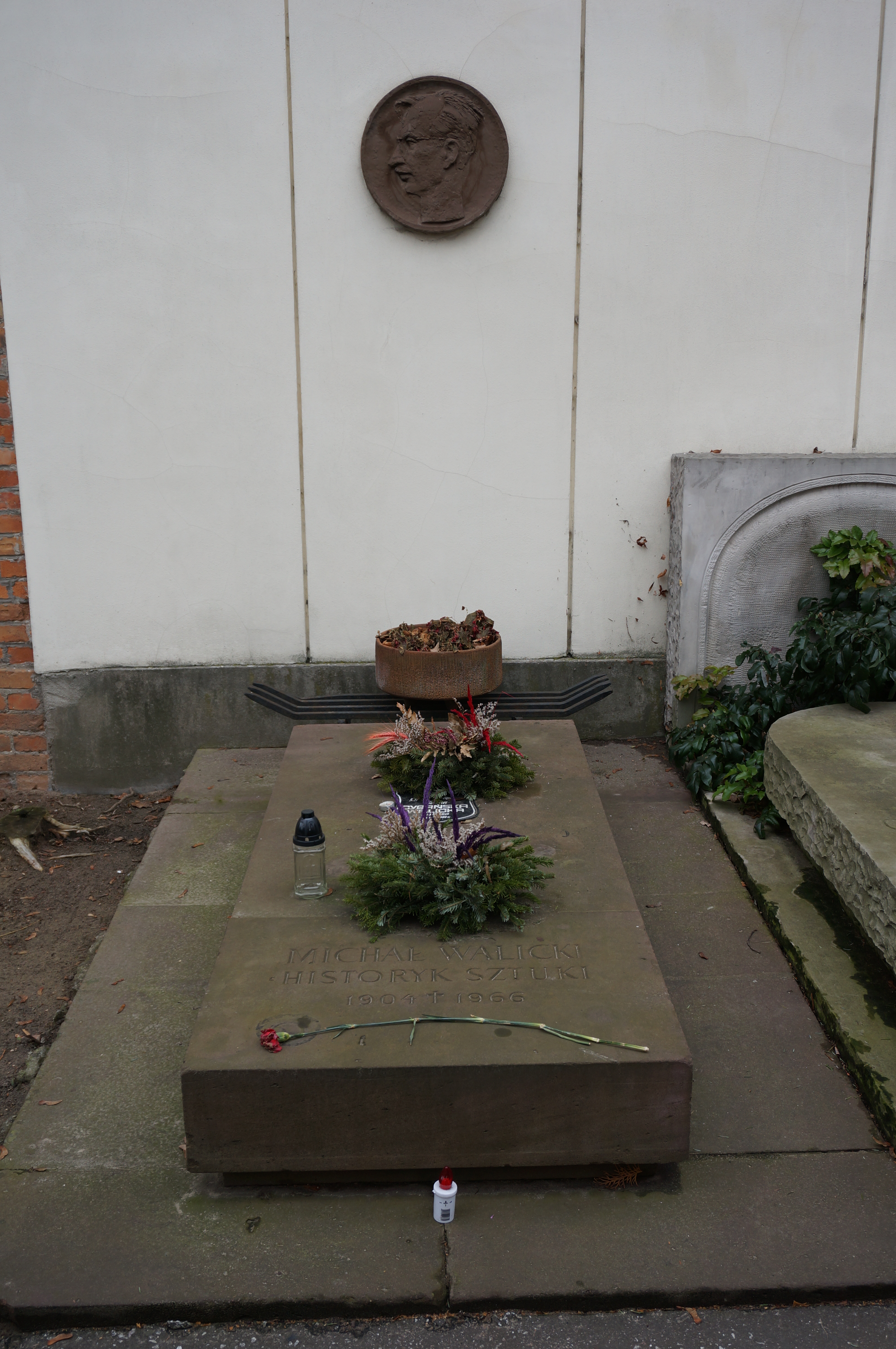 The grave of Michał Walicki at the Powązki Cemetery (Avenue of Deserved, grave 148)